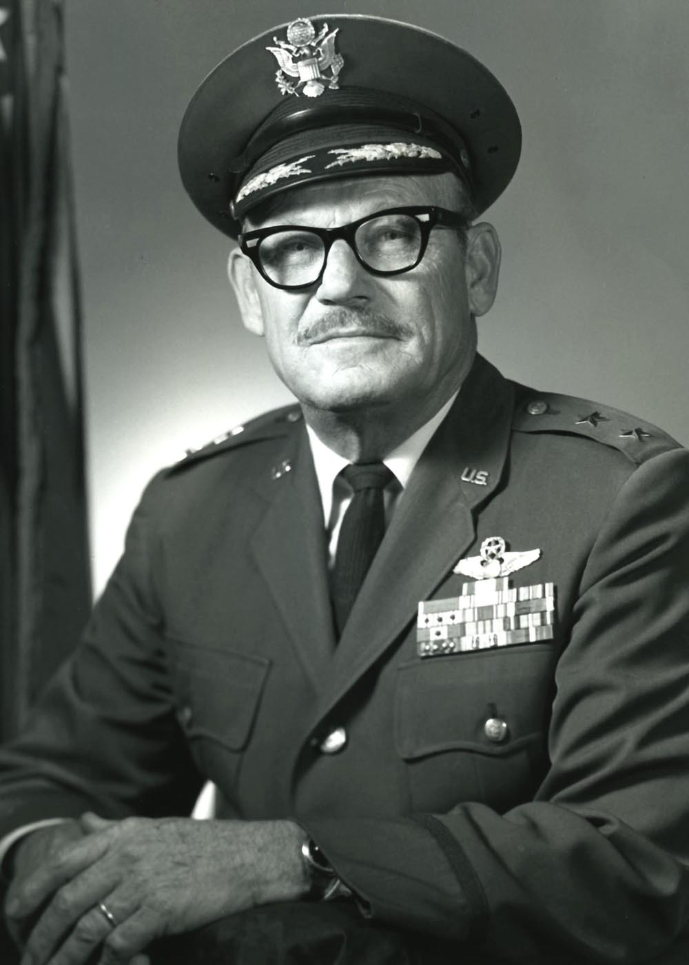 W. P. Wilson